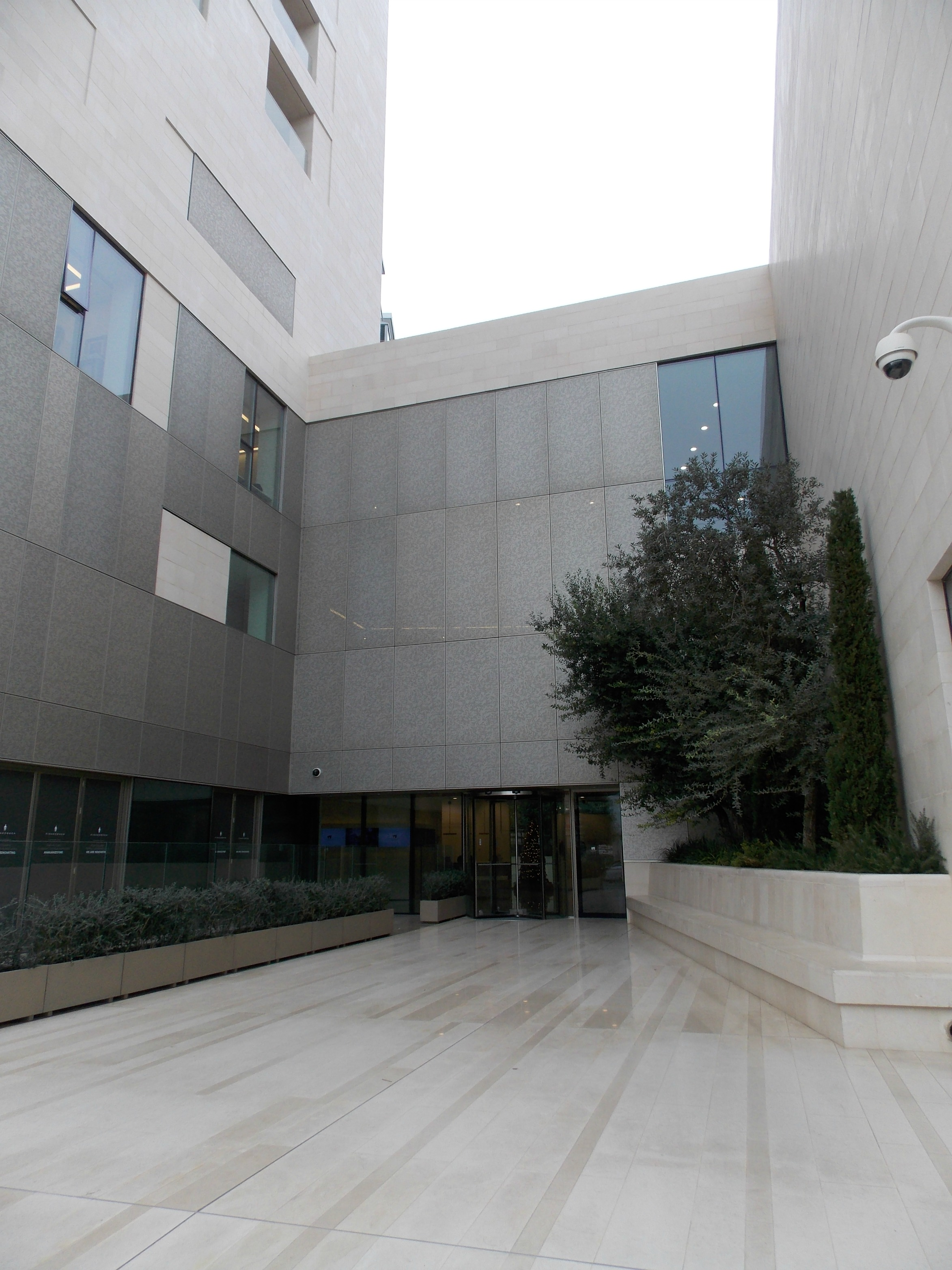 The Entrance of Art Gallery "Leventis" in Nicosia, Cyprus.